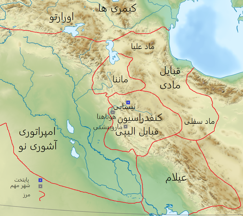 Map Of Ellipi Confedration in 850